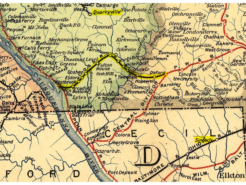 Map of Lancaster, Oxford and Southern Railroad. The rail line was built by the Peach Bottom Railway (Eastern Division) between 1872 & 1878. Original map cropped and LO&S rail line highlighted. Two planned destinations are also highlighted: Quarryville, PA (branch line completed 1906) and Singerly, MD (the planned extension to B&O RR was not built).